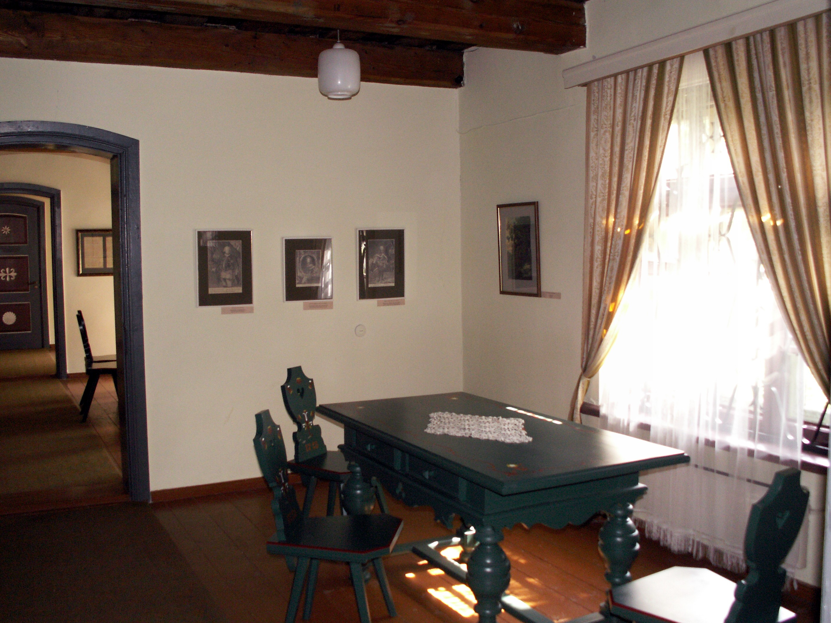 Tolminkiemis (Tchistye Prudy) in Kaliningrad oblast. Museum of Kristijonas Donelaitis